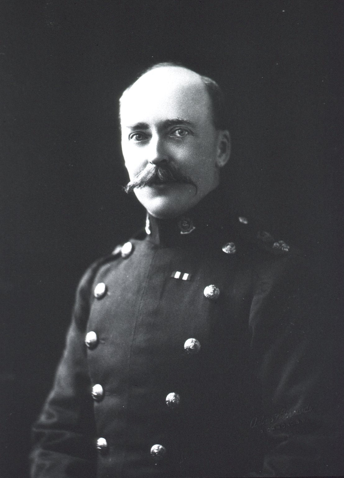 William Boog Leishman